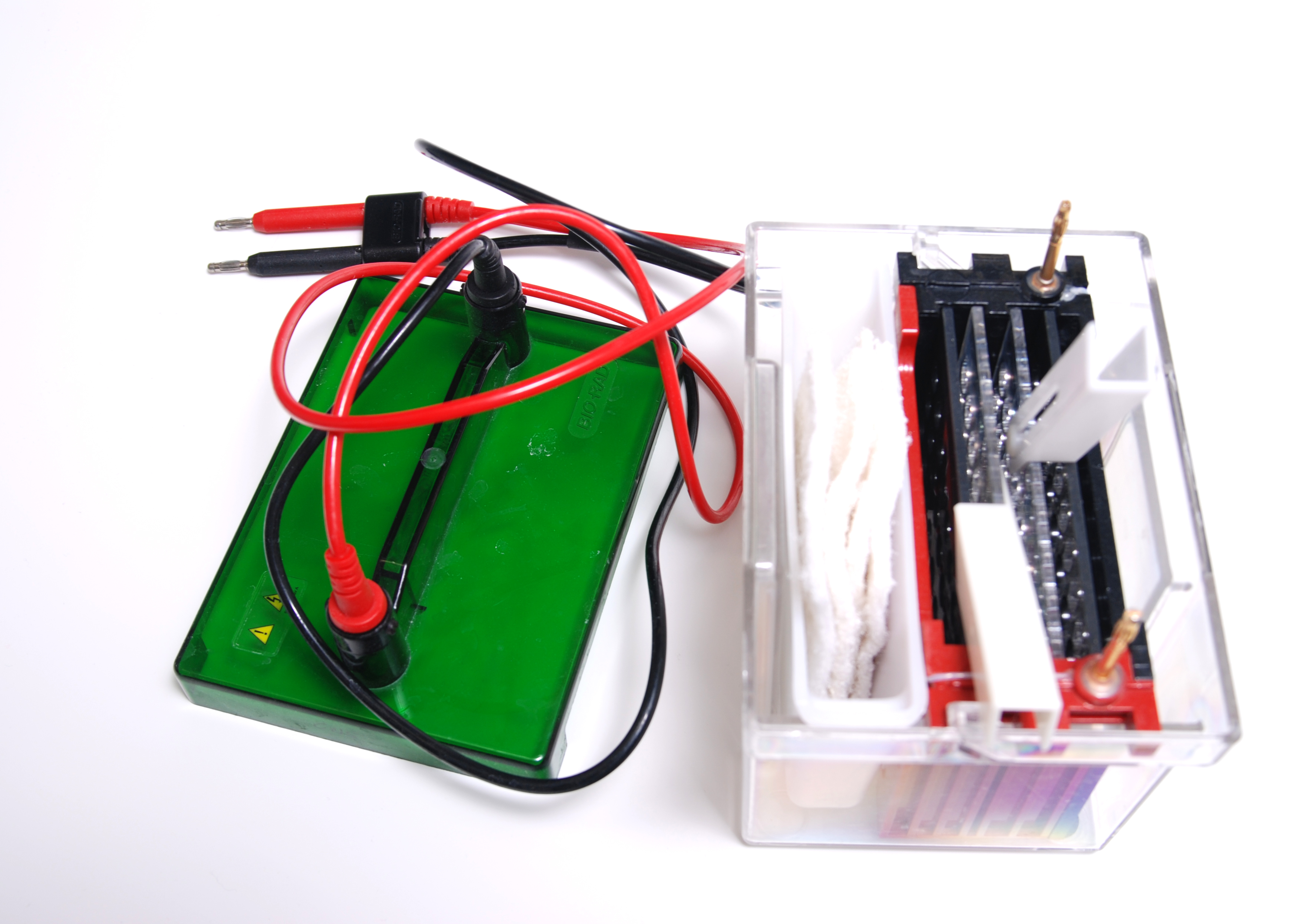 Wet Western blot transfer apparatus, Criterion.